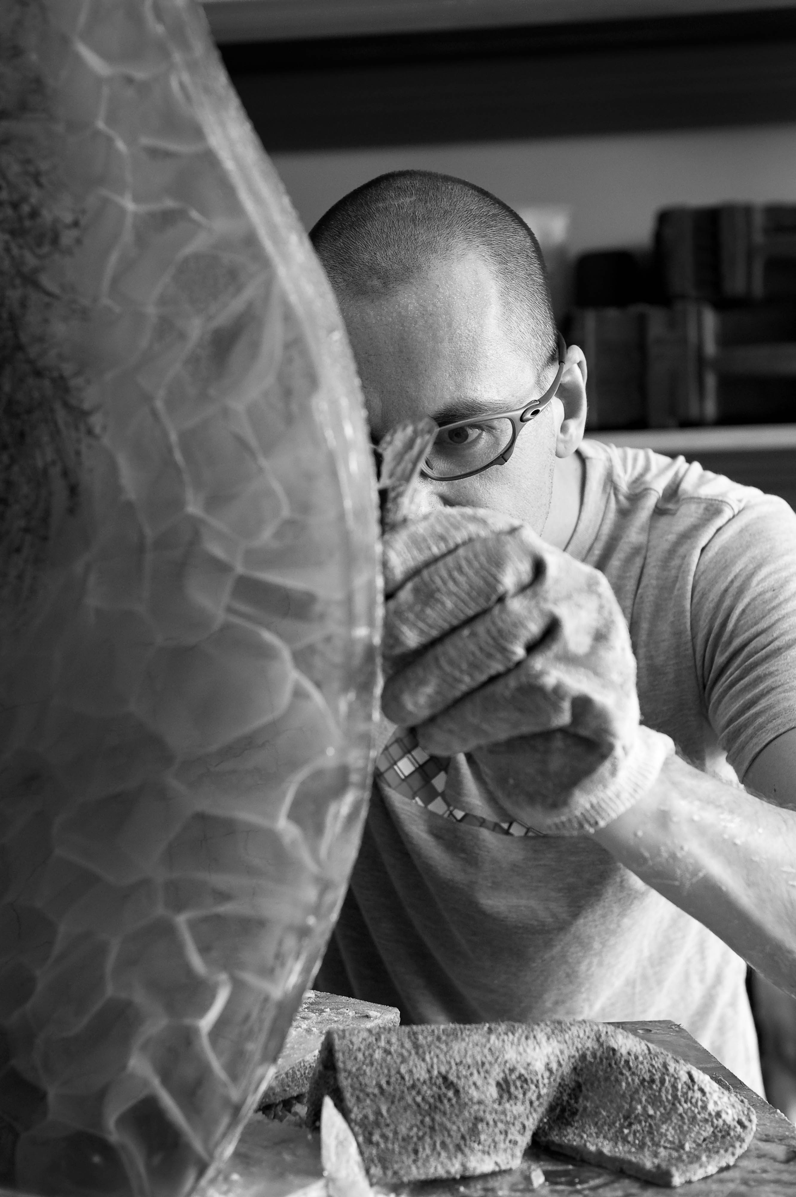 portrait,OTRS pending